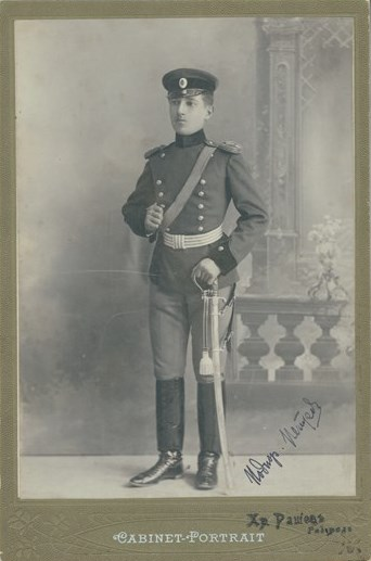 Photo of Simeon Petrov, who participated in the bombing of Edirne, one of the first three Bulgarian pilots.